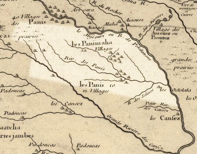 Nebraska 1718, approximate modern state area highlighted, from Carte de la Louisiane et du cours du Mississipi by Guillaume de L'Isle. Borders are very rough, since the Republican and Platte Rivers are shown with unusual routes. Licensing My contributions cleaning and highlighting are also donated to Public Domain. Bill Whittaker (talk) 20:14, 27 July 2009 (UTC) The Library of Congress scan is covered by: The 1718 map is covered by